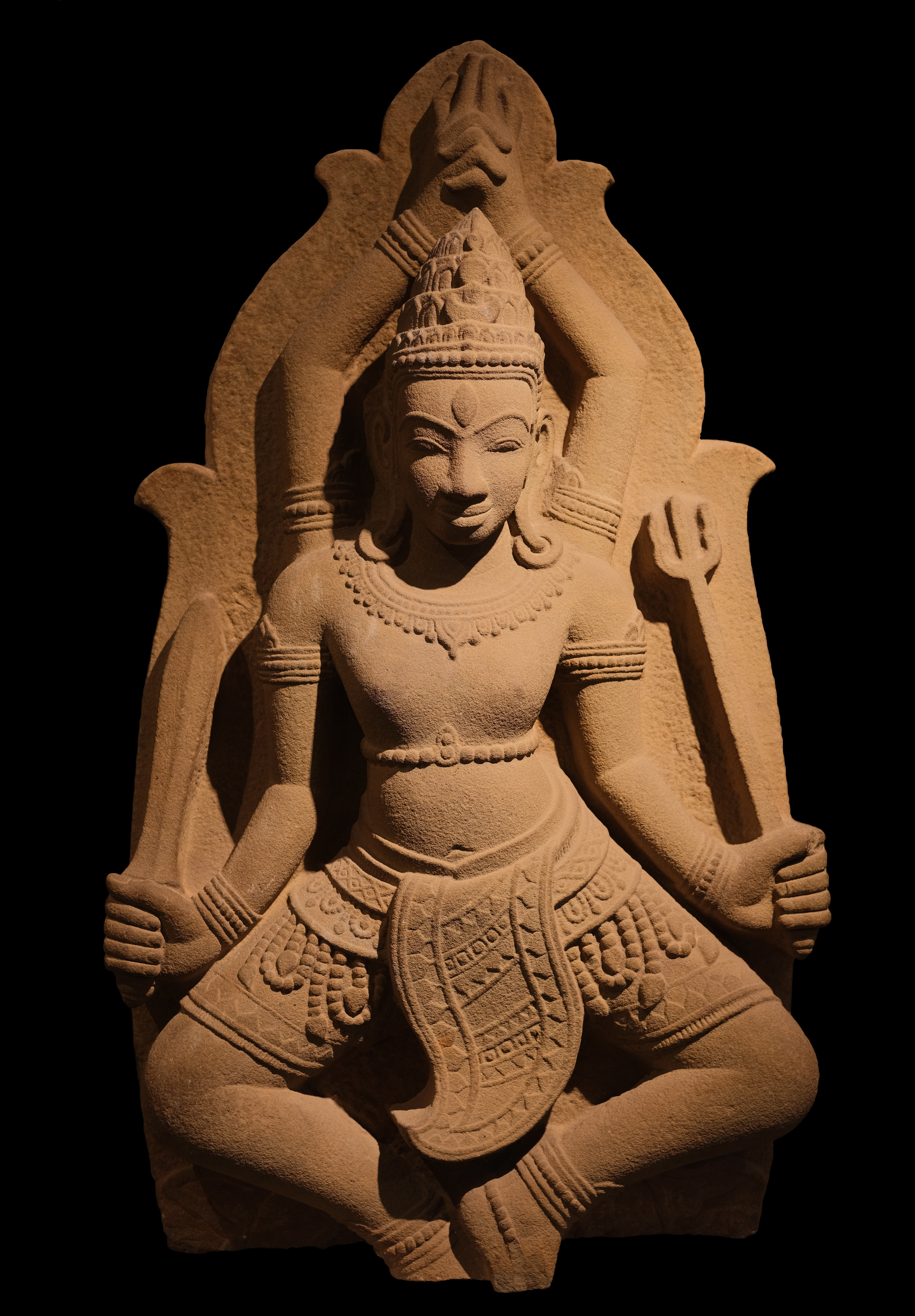 A late 11th century or 12th century high relief sandstone sculpture of Shiva, Thap Mam Style of the art of Champa. Cham sculpure museum in Đà Nẵng, Vietnam